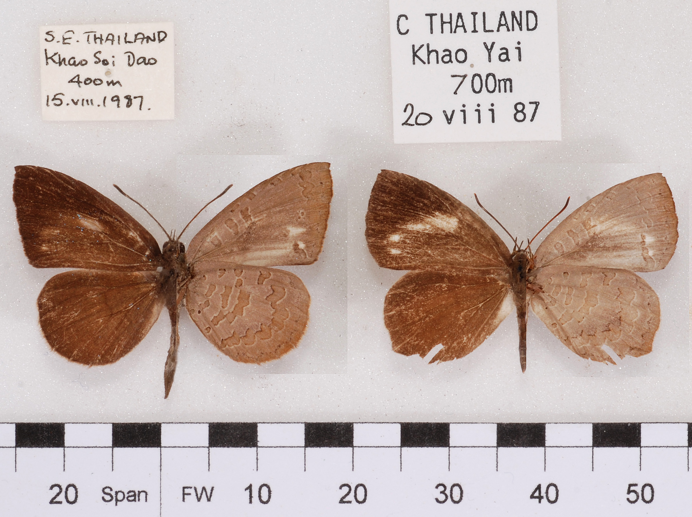 Miletus chinensis learchus, male, female, set specimens, Thailand, Alan Cassidy photo.